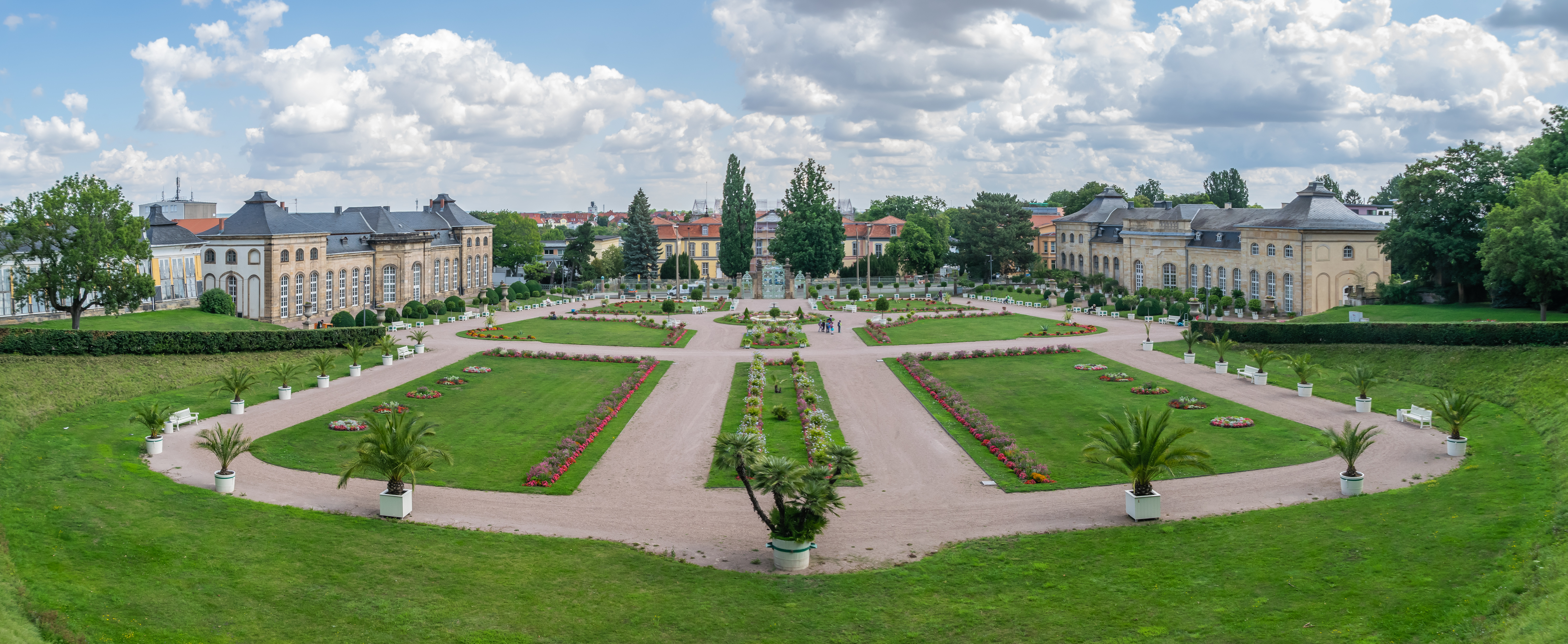 Orangery in Gotha, Thuringia, Germany